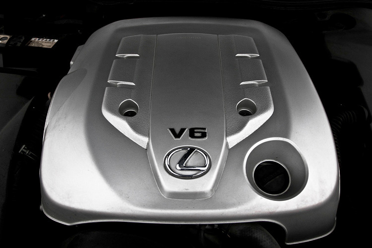 ????IS300 * ??